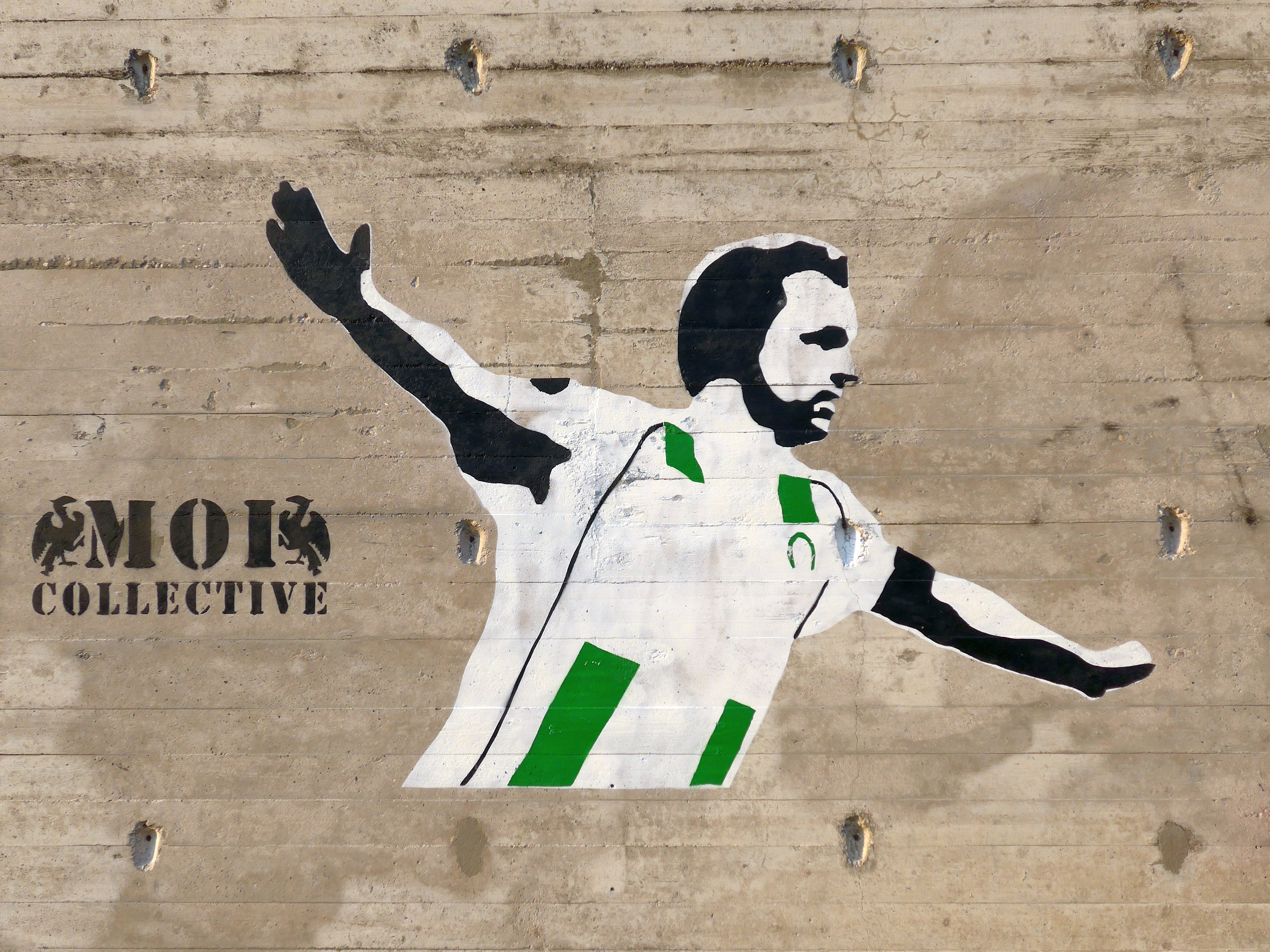 Graffiti in the Dutch city of Groningen.